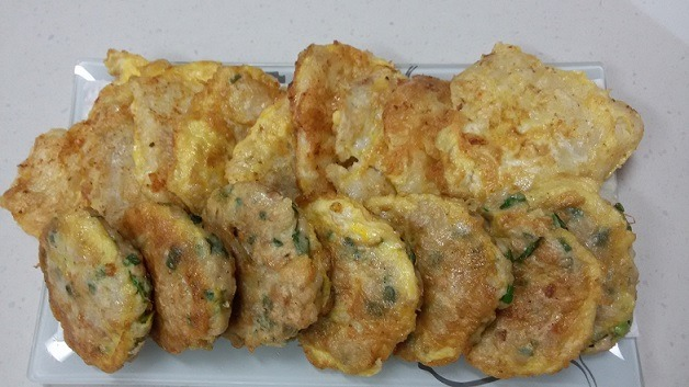 dongtae-jeon (pan-fried Alaska pollock) and dongeurang-ttaeng (pan-fried pork meatball)